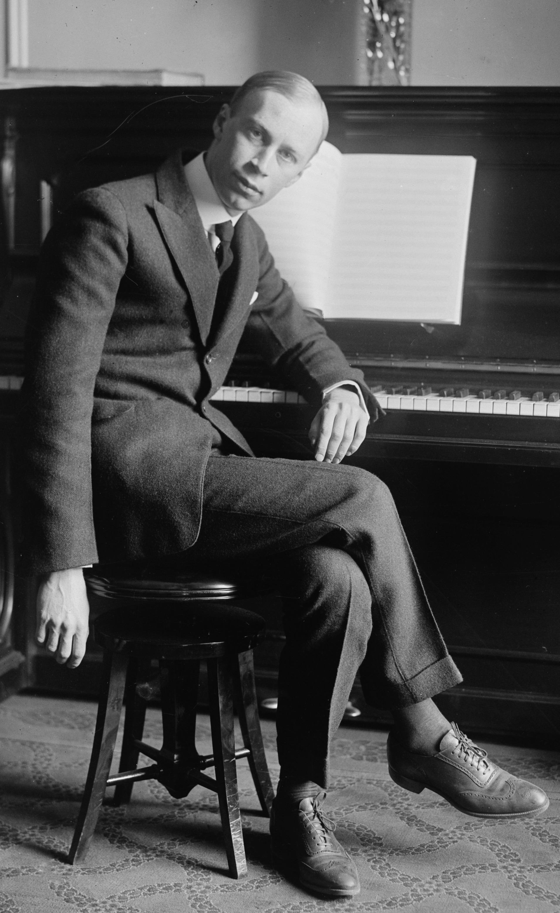 Russian composer Sergei Prokofiev (1891-1953)